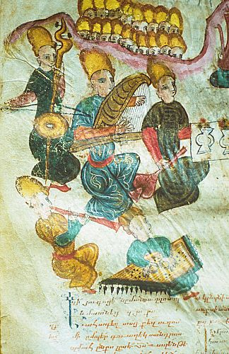 Group of Musicians, XVIth or XVIIth century